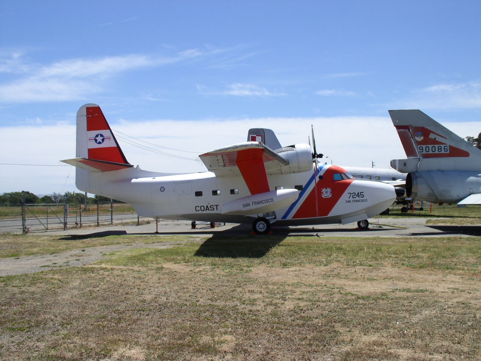 HU-16E Albatross. Taken in Pacific Coast Air Museum, Santa Rosa, California, USA.